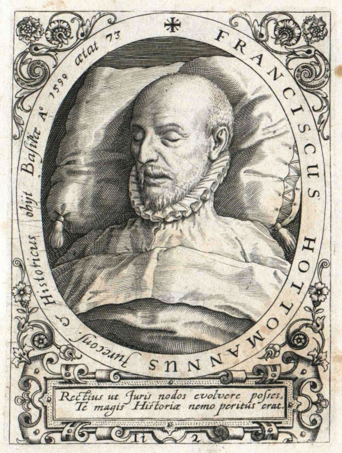 François Hotman, French Protestant lawyer and writer (1524-1590)